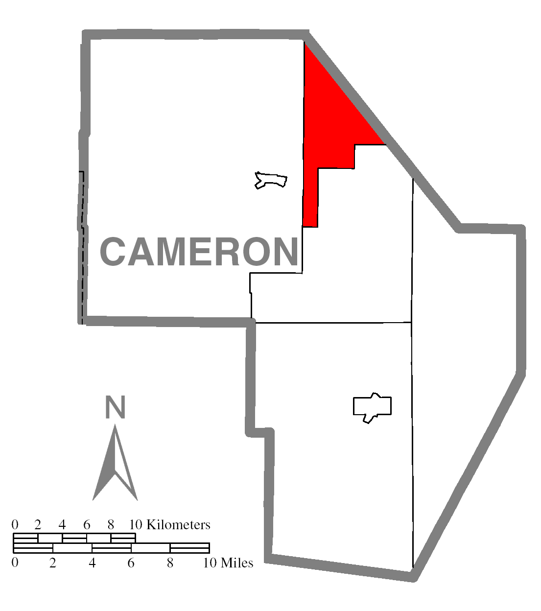 A map of Cameron County showing Portage Township, Pennsylvania (alternate) highlighted on the map.